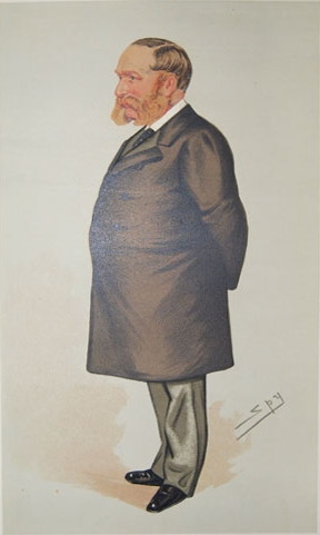 Caricature of Samuel Wilson. Caption read "a squatter".